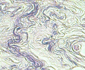 Elastic fibers in mammary glands coulered by Weigert's elastic stain. Elastic fibers are blue. (Magnification: 100x)